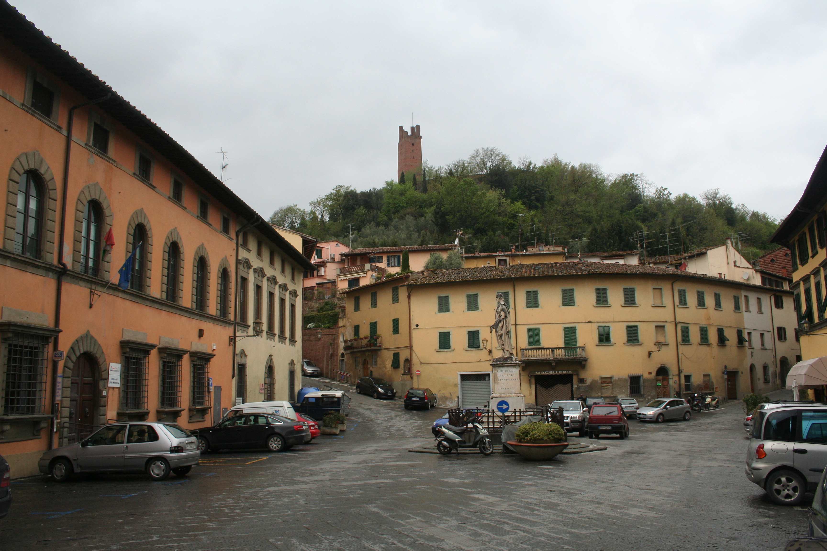 Piazza Bonaparte in San Miniato